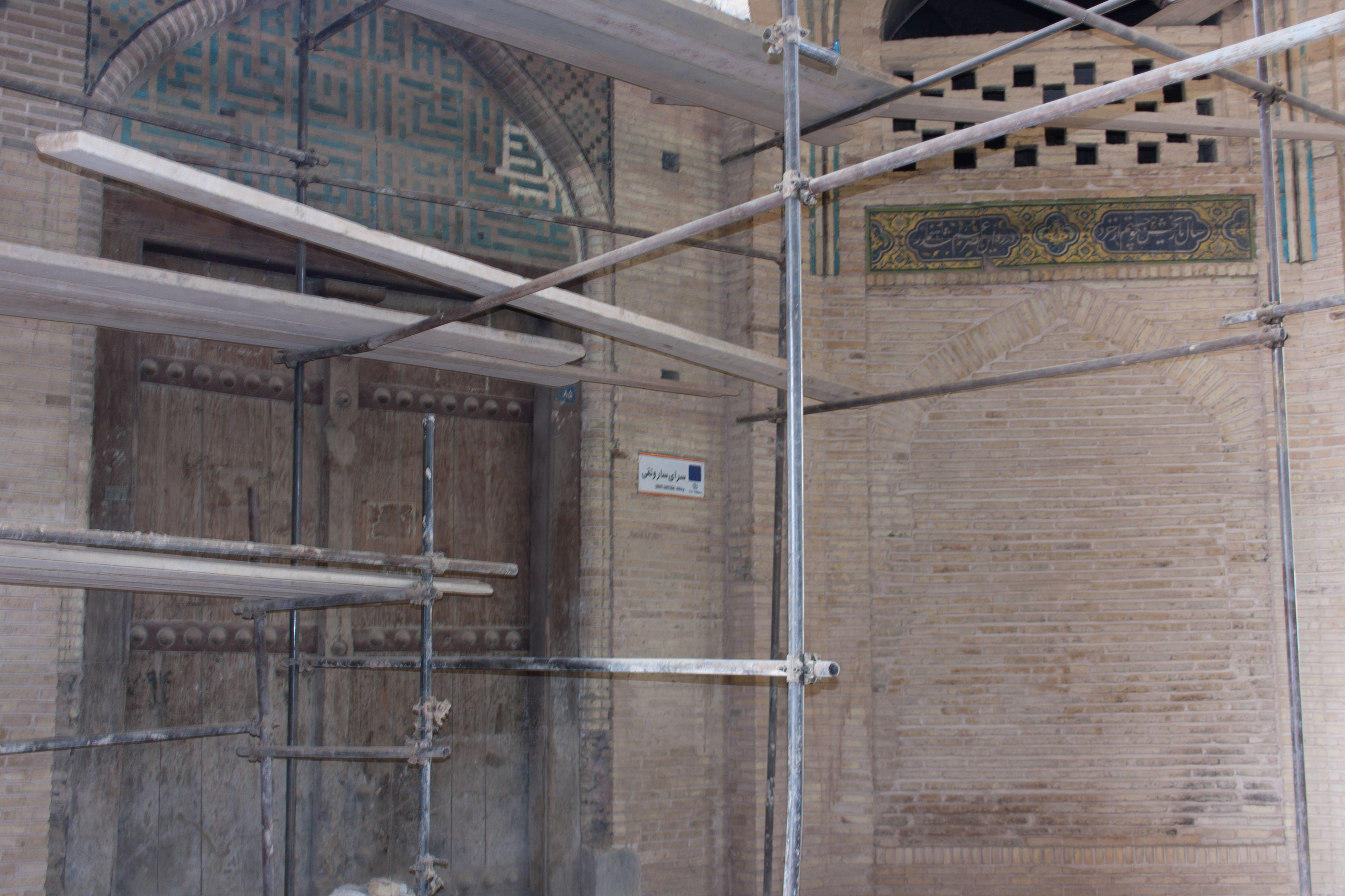 Sarootaghi saray